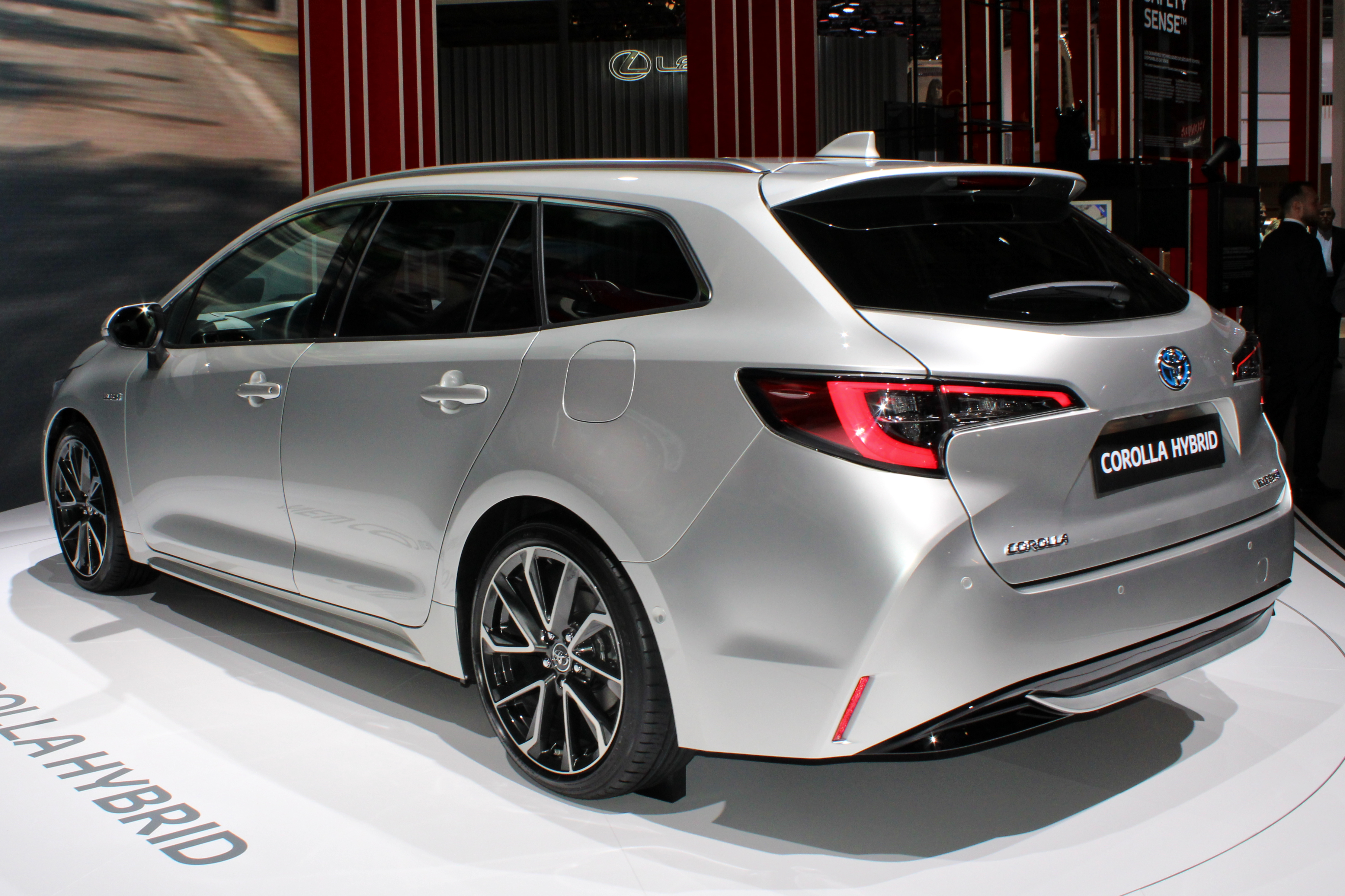 Toyota Corolla Touring Sports Hybrid at Paris Motor Show 2018